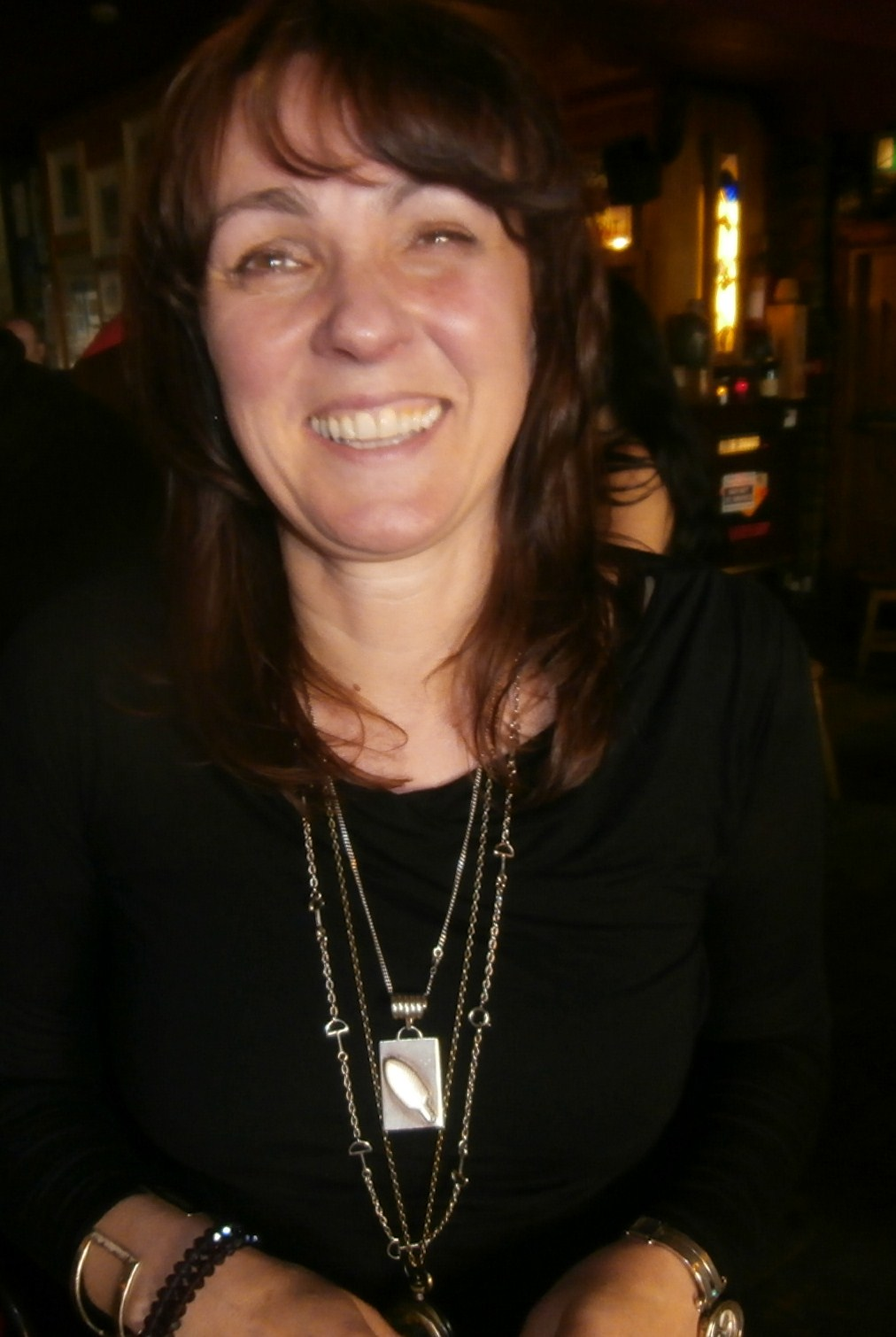 Karan Casey at the launching of her album 'Two More Hours.' The Corner House, Cork.